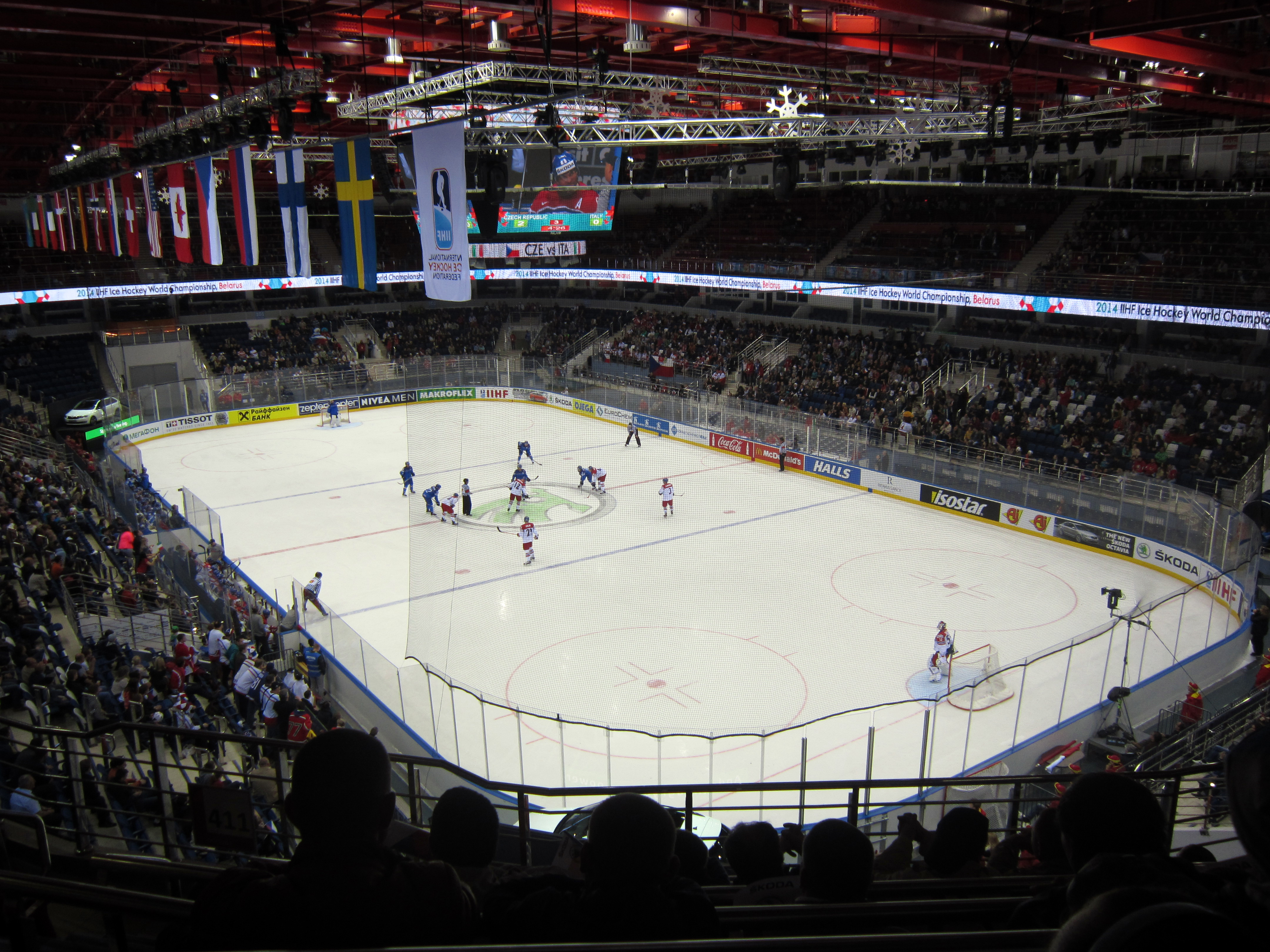 Czech Republic — Italy game during IIHF World Championship 2014 (Minsk, Belarus), 14 May 2014